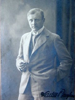 Portrait of architect Karl M Bengtson